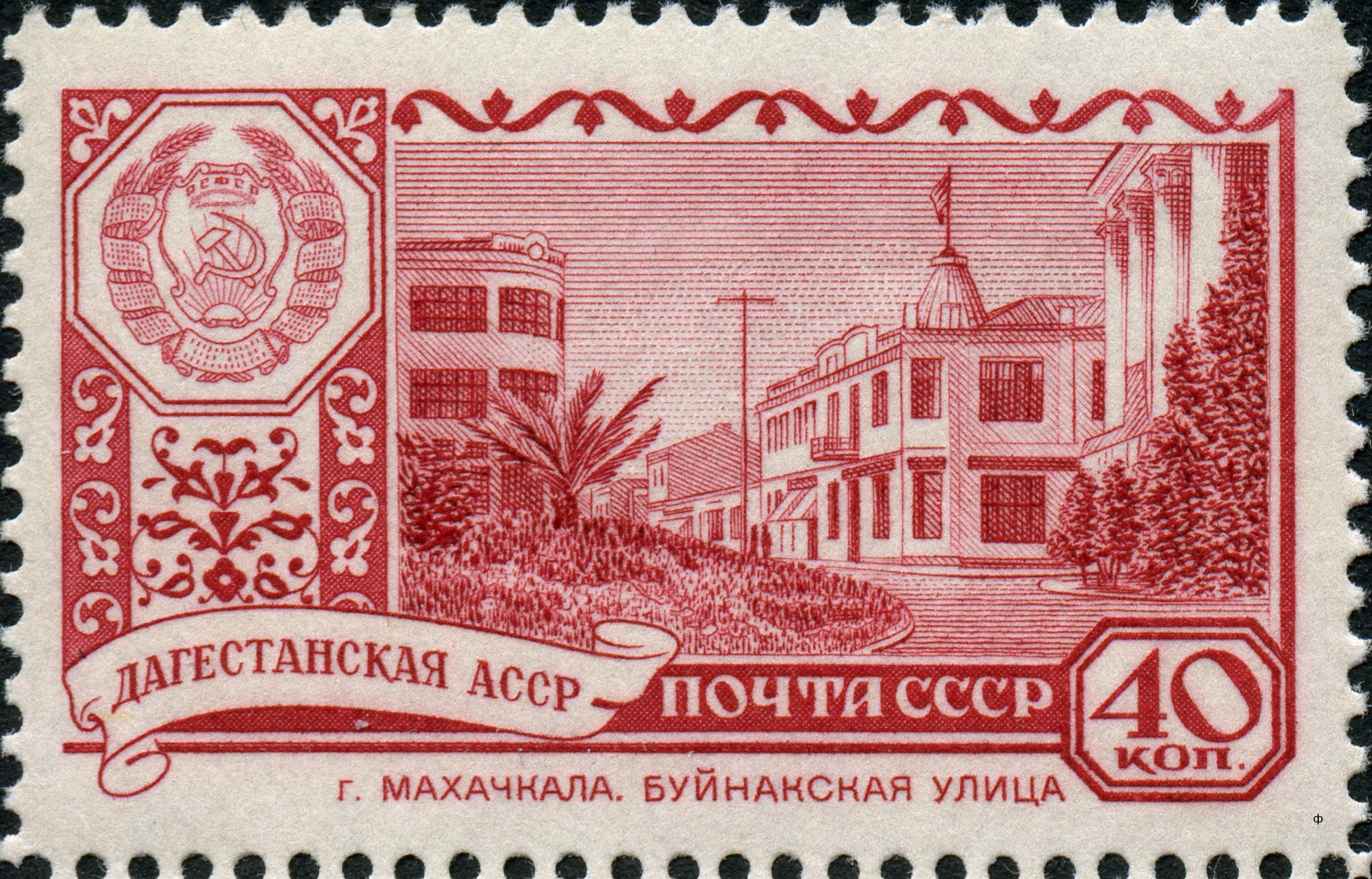 stamp of the USSR